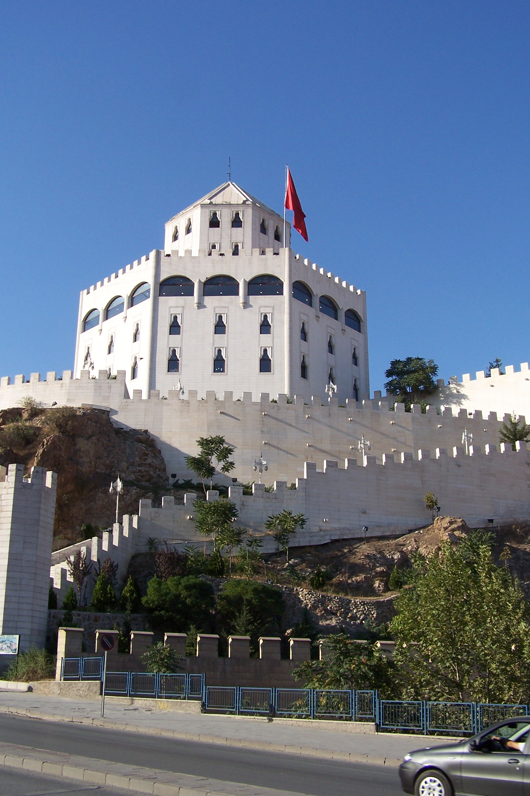 The Estergon Kalesi from Fatih Caddesi in the Keçiören district of Ankara.